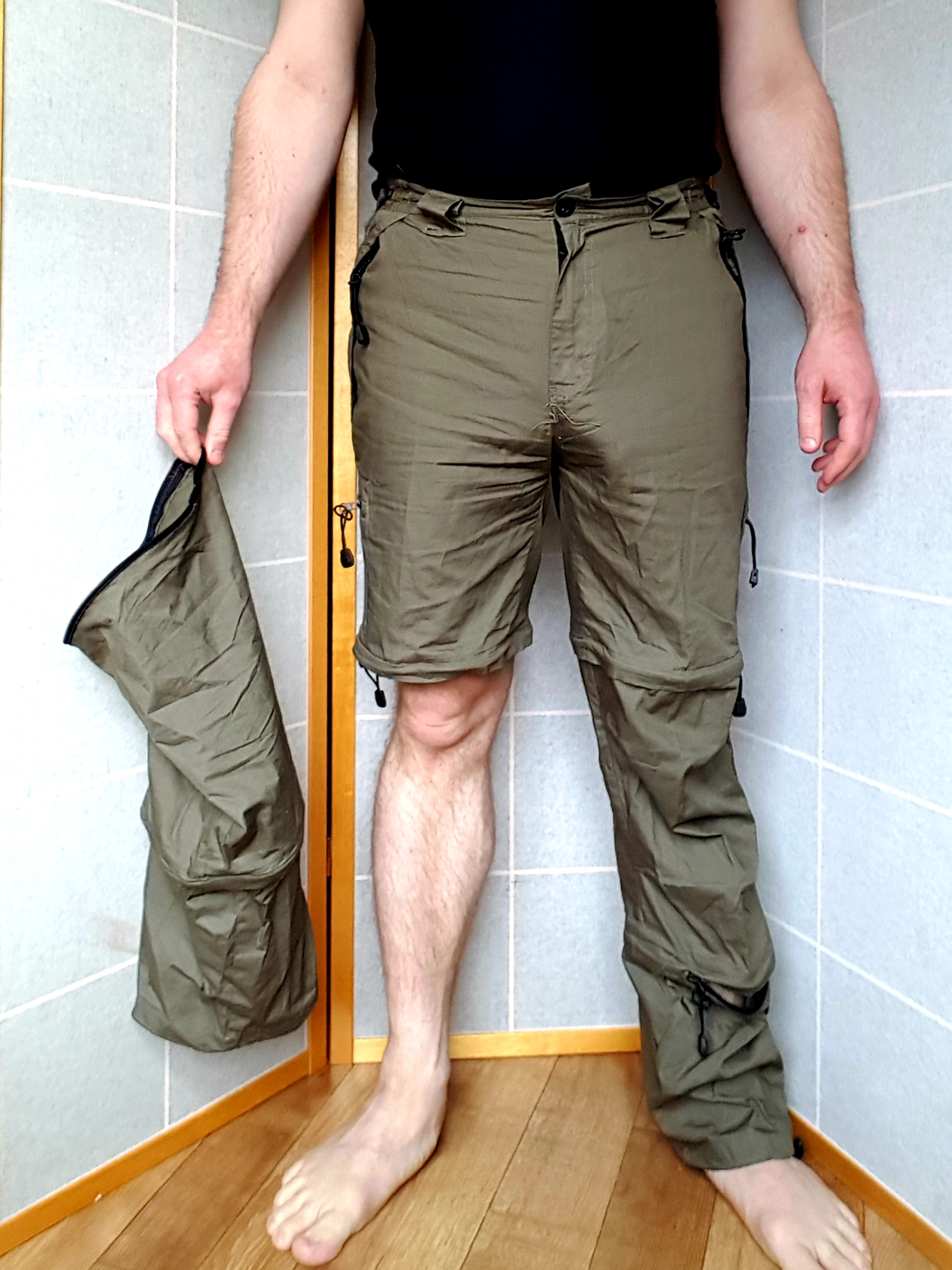 A male wearing a pair of khaki convertible trousers/trekking pants with one leg zipped off to make them into shorts.